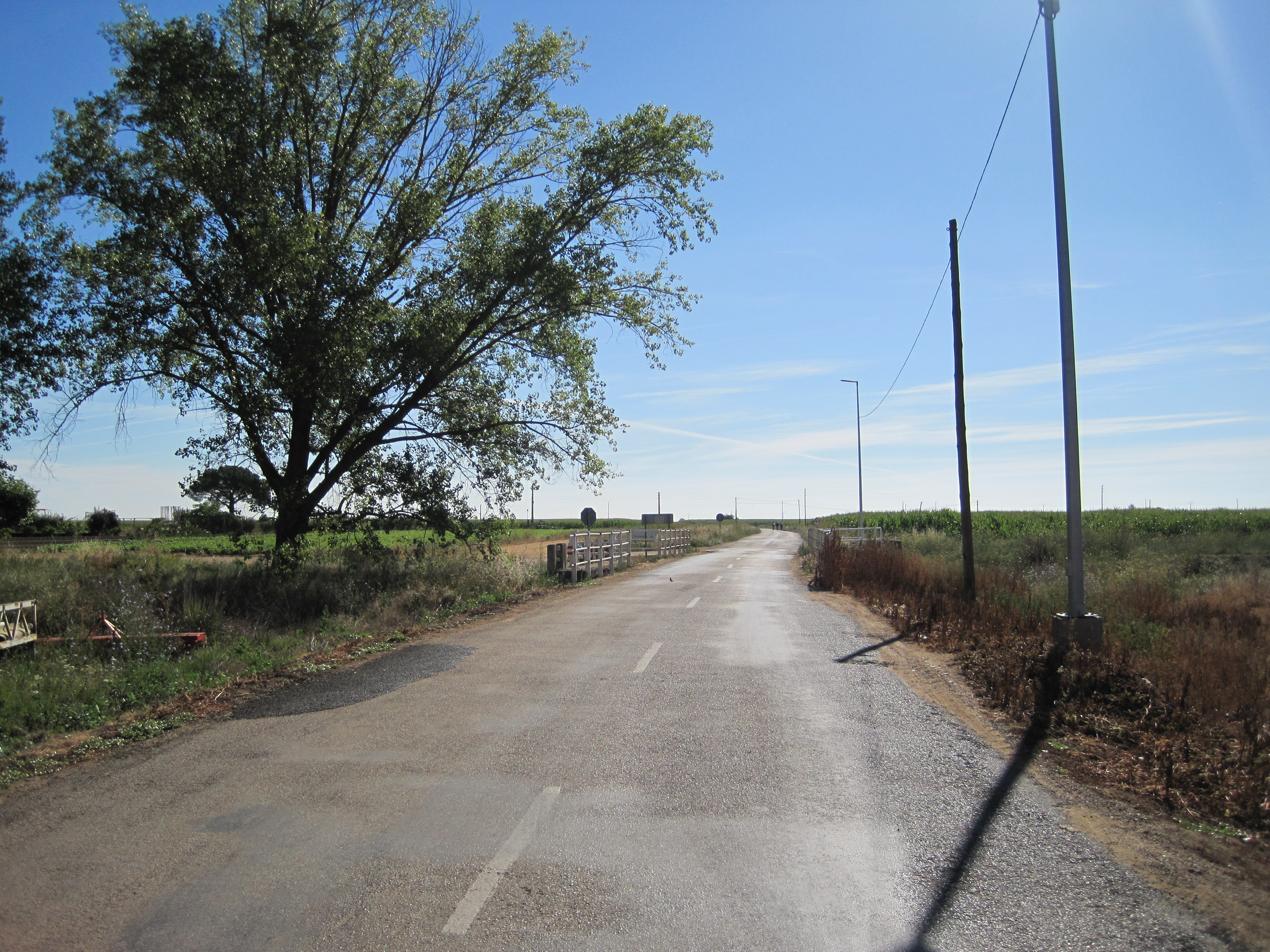 Imagen tomada en Bercianos del Páramo (León).